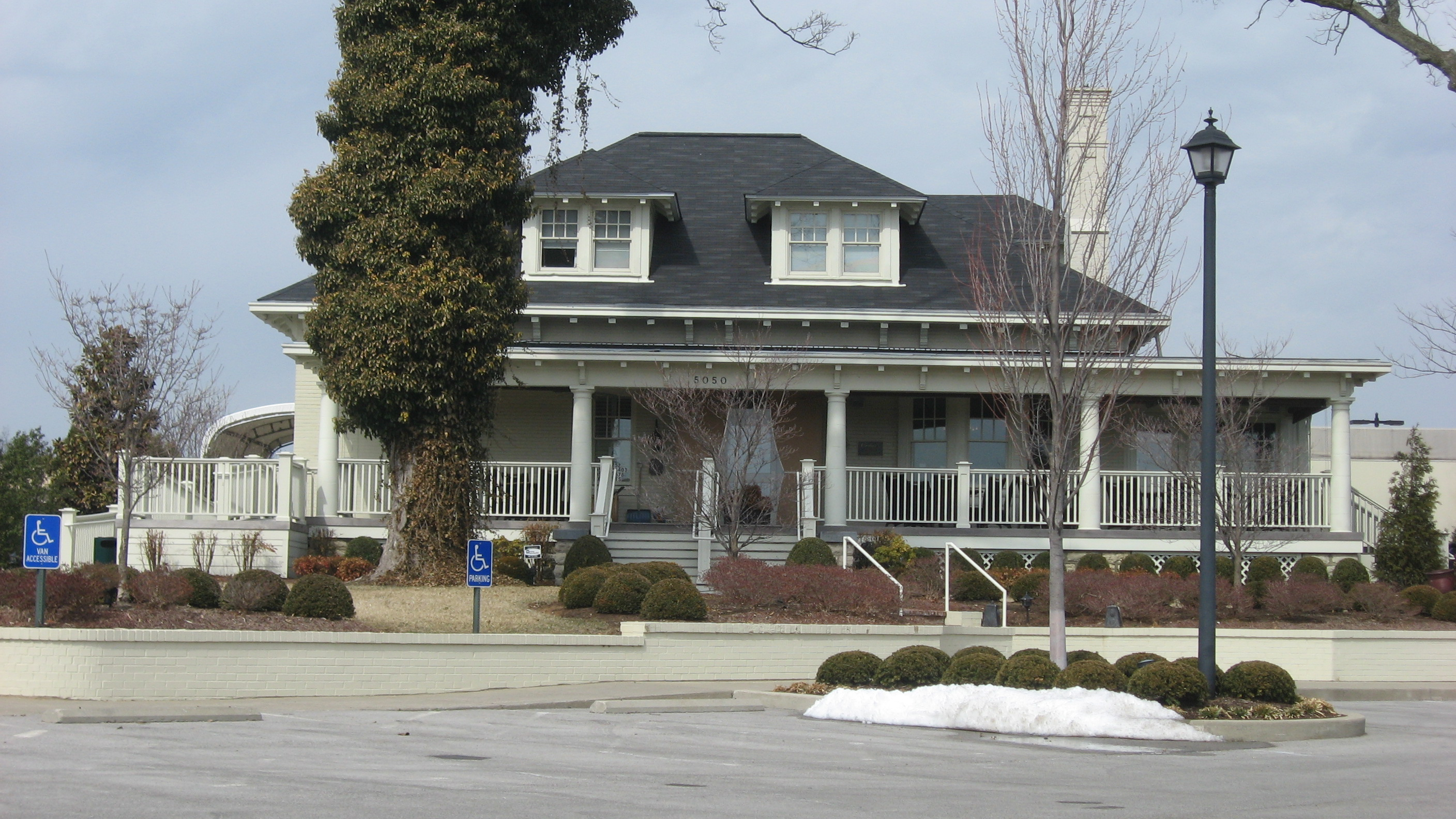 Front of the Von Allmen Dairy Farm House, located at 5050 Norton Healthcare Boulevard in Worthington, Kentucky, United States. Built in 1919, it is listed on the National Register of Historic Places.